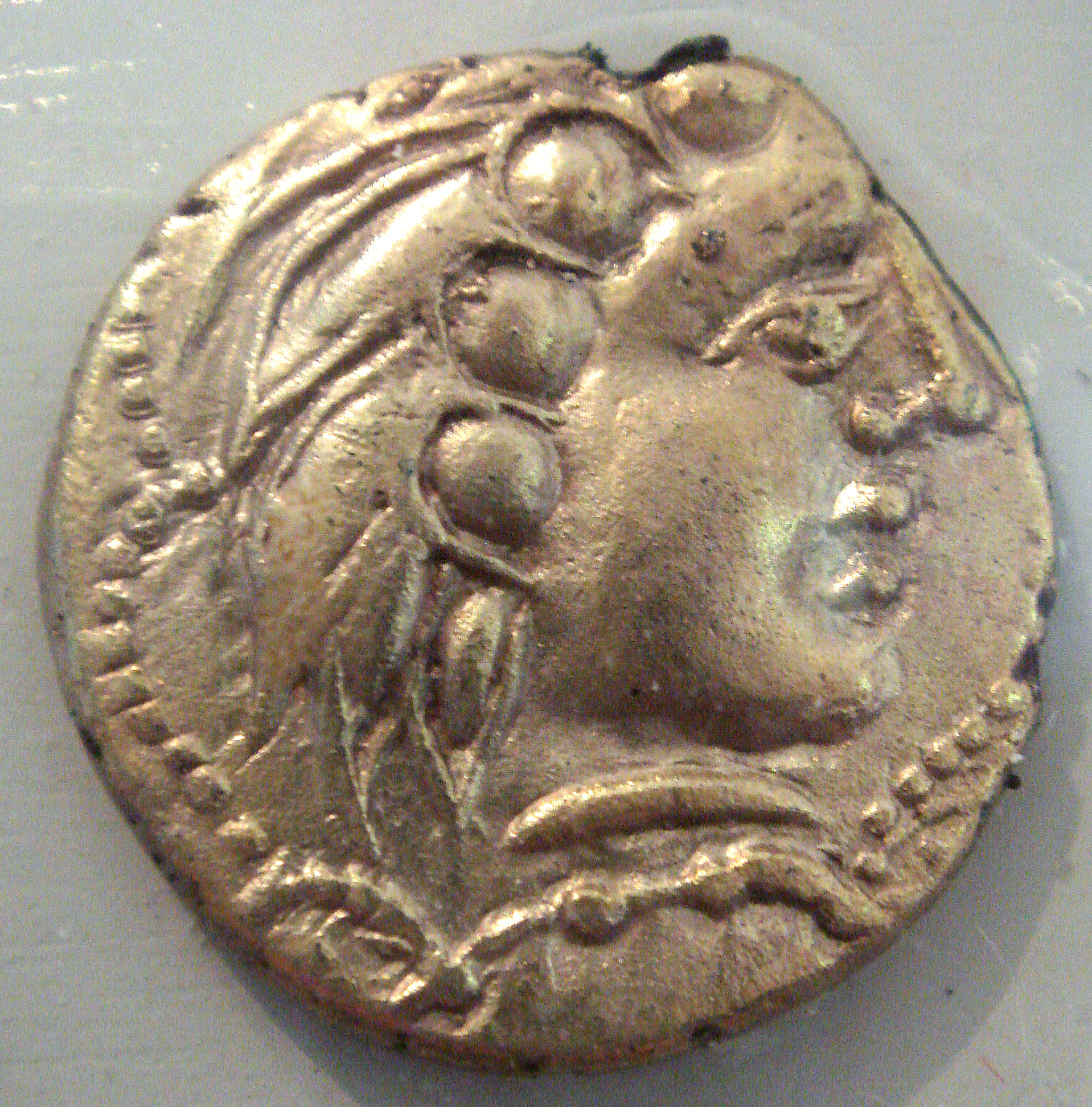 Santones_gold_coin_5_to_1st_century_BCE